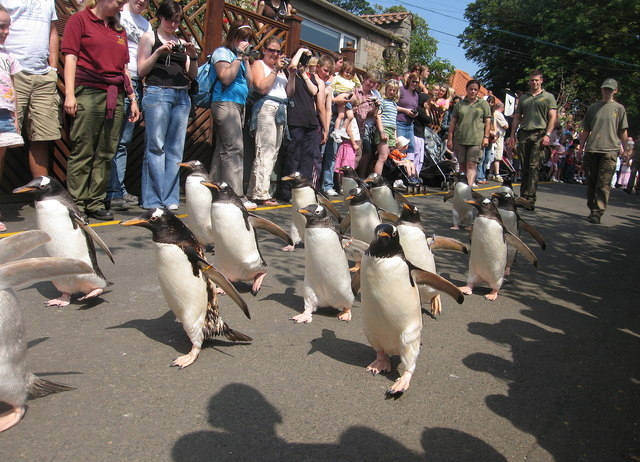 Penguin Parade. Every day the penguins are invited to take a walk around the zoo. Participation is totally voluntary!